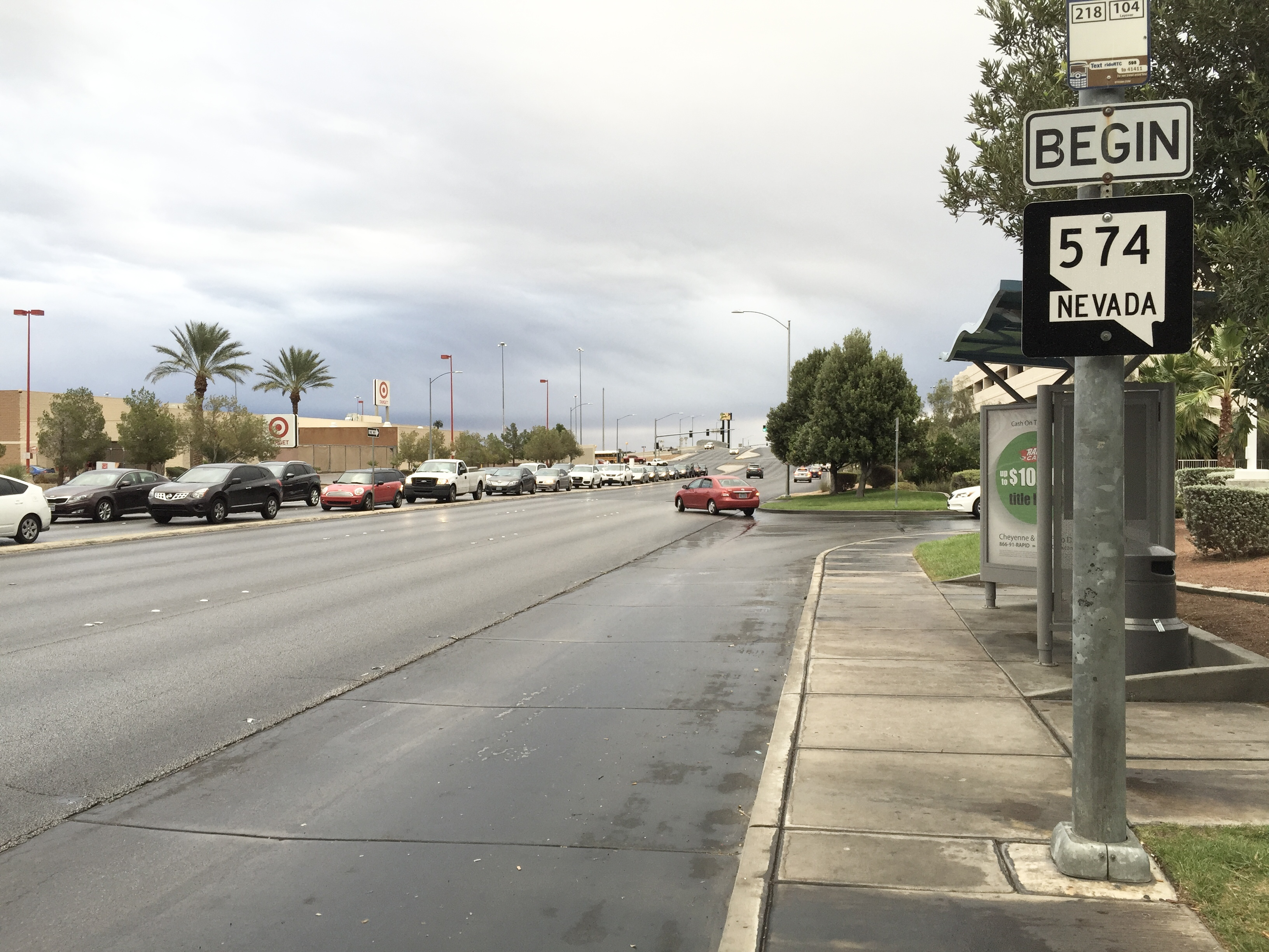 View east from the west end of Nevada State Route 574 (Cheyenne Avenue) in Las Vegas, Nevada